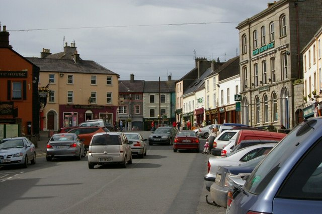 Roscrea Roscrea on a sunny day